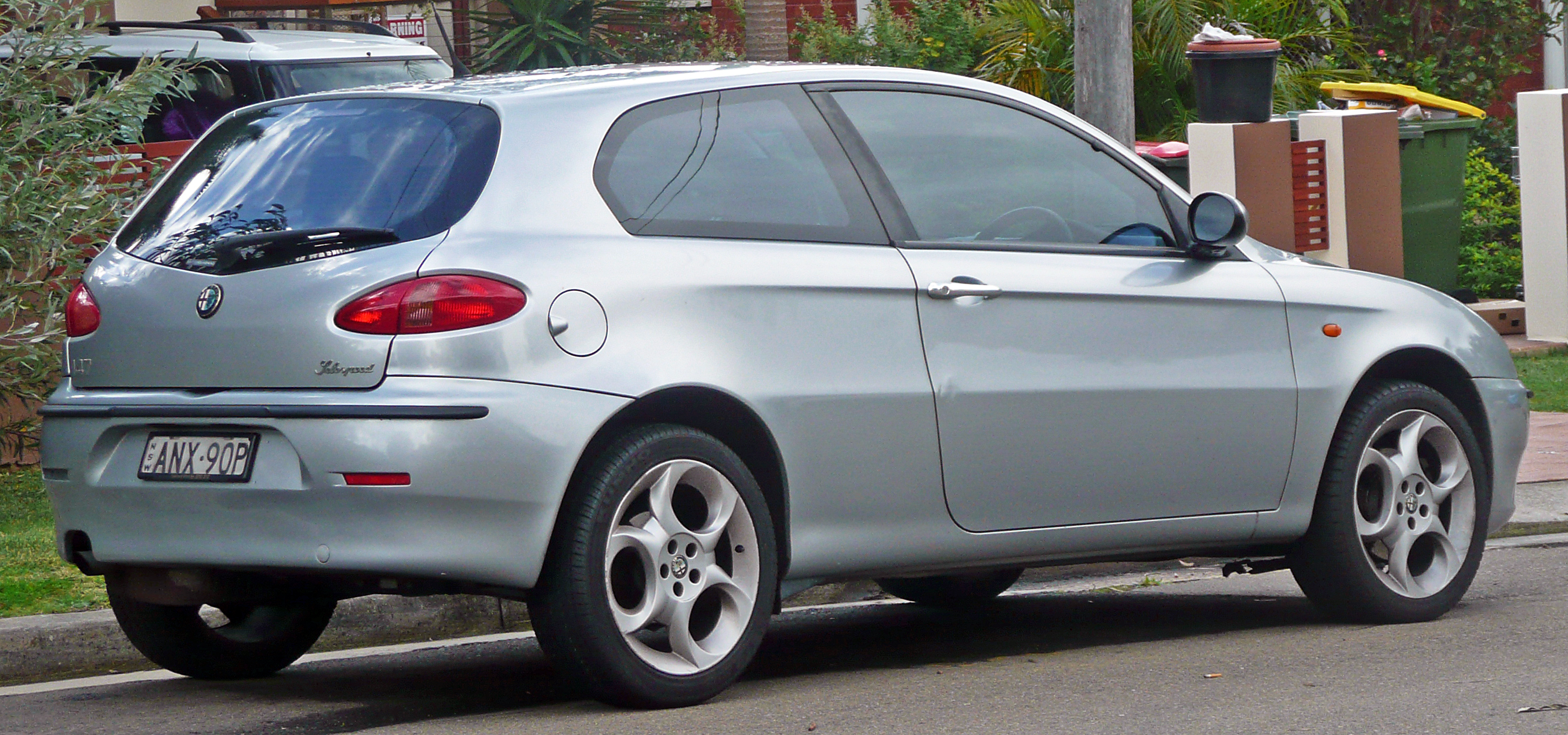 2003 Alfa Romeo 147 (MY02) Selespeed Twin Spark 3-door hatchback. Photographed in Cronulla, New South Wales, Australia.